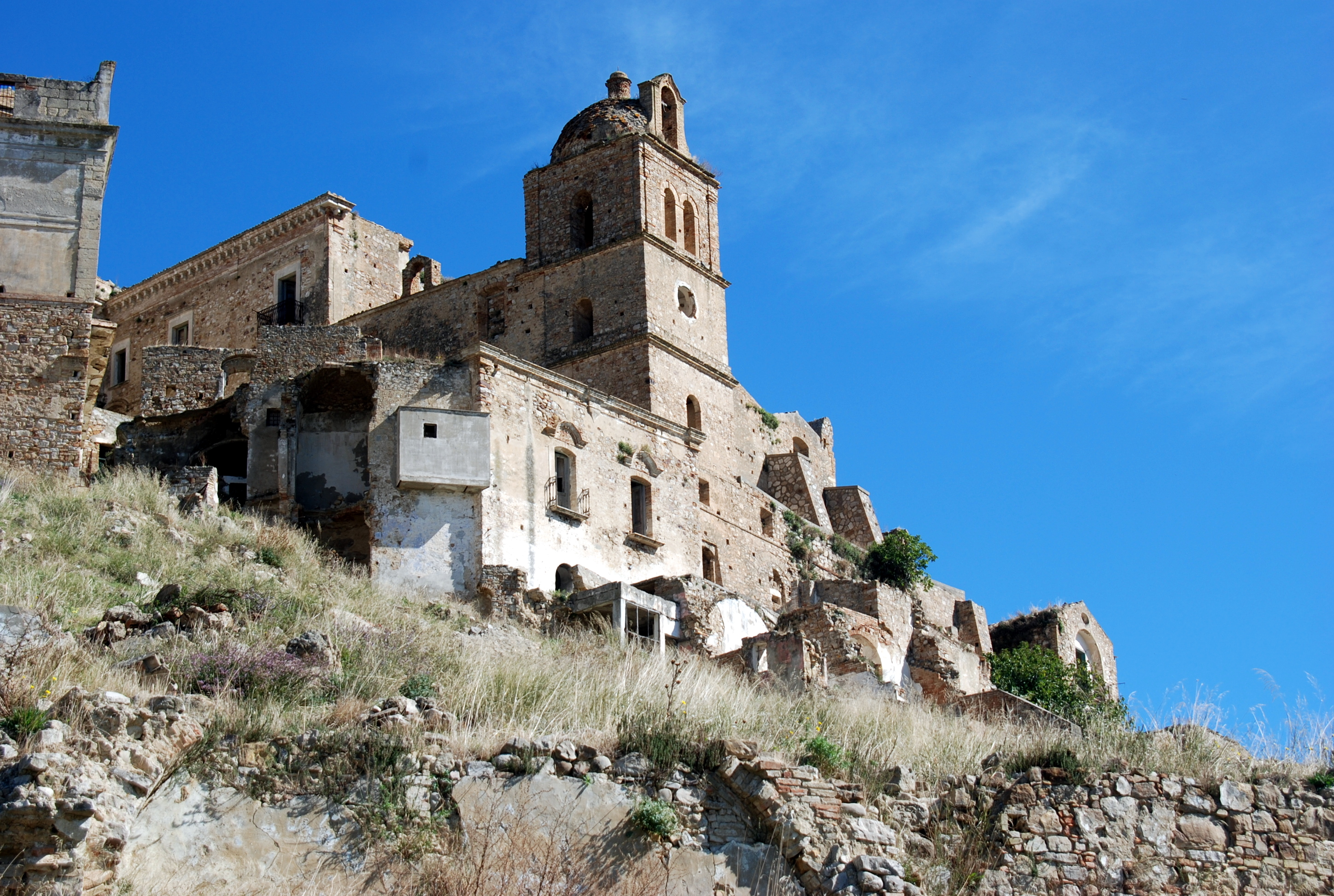 Ghost town of Craco, Basilicata